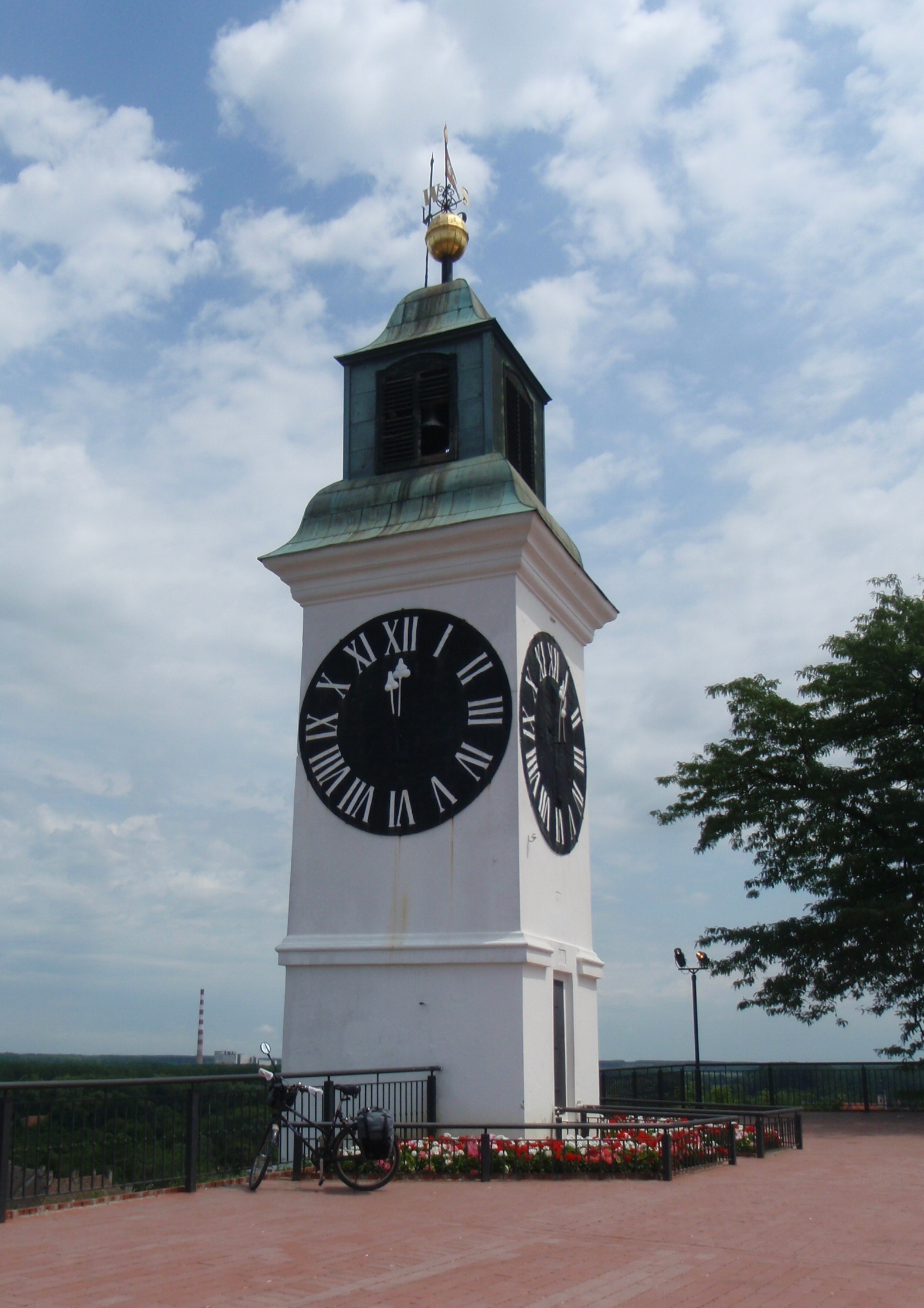 Clock tower of Petrovaradin fortress, Novi Sad, Vojvodina, Serbia. Photo: Siv Bjoerklid